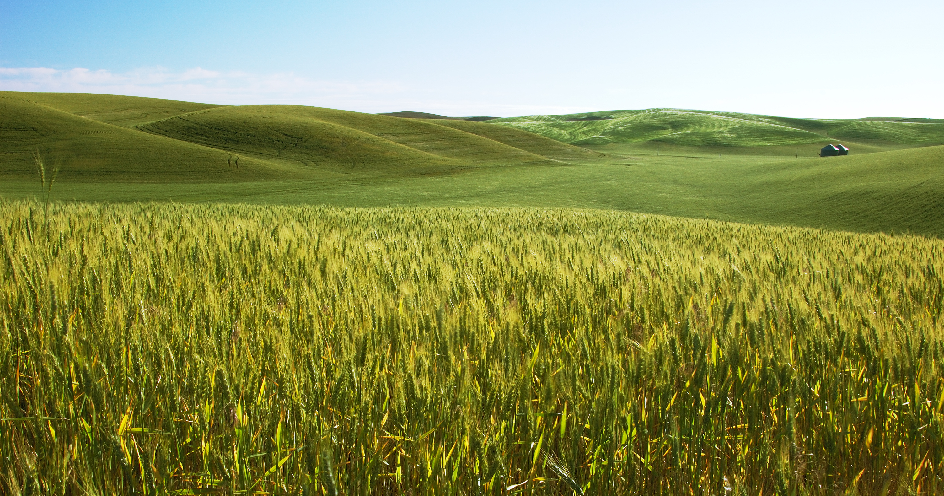 A field of ripening barley, the Palouse, USA